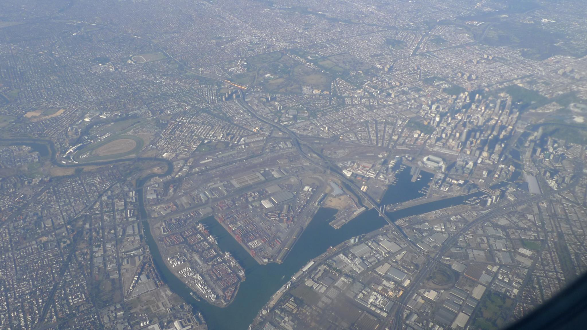 Aerial view of Melbourne. The city centre is the cluster of tall buildings, located top right.